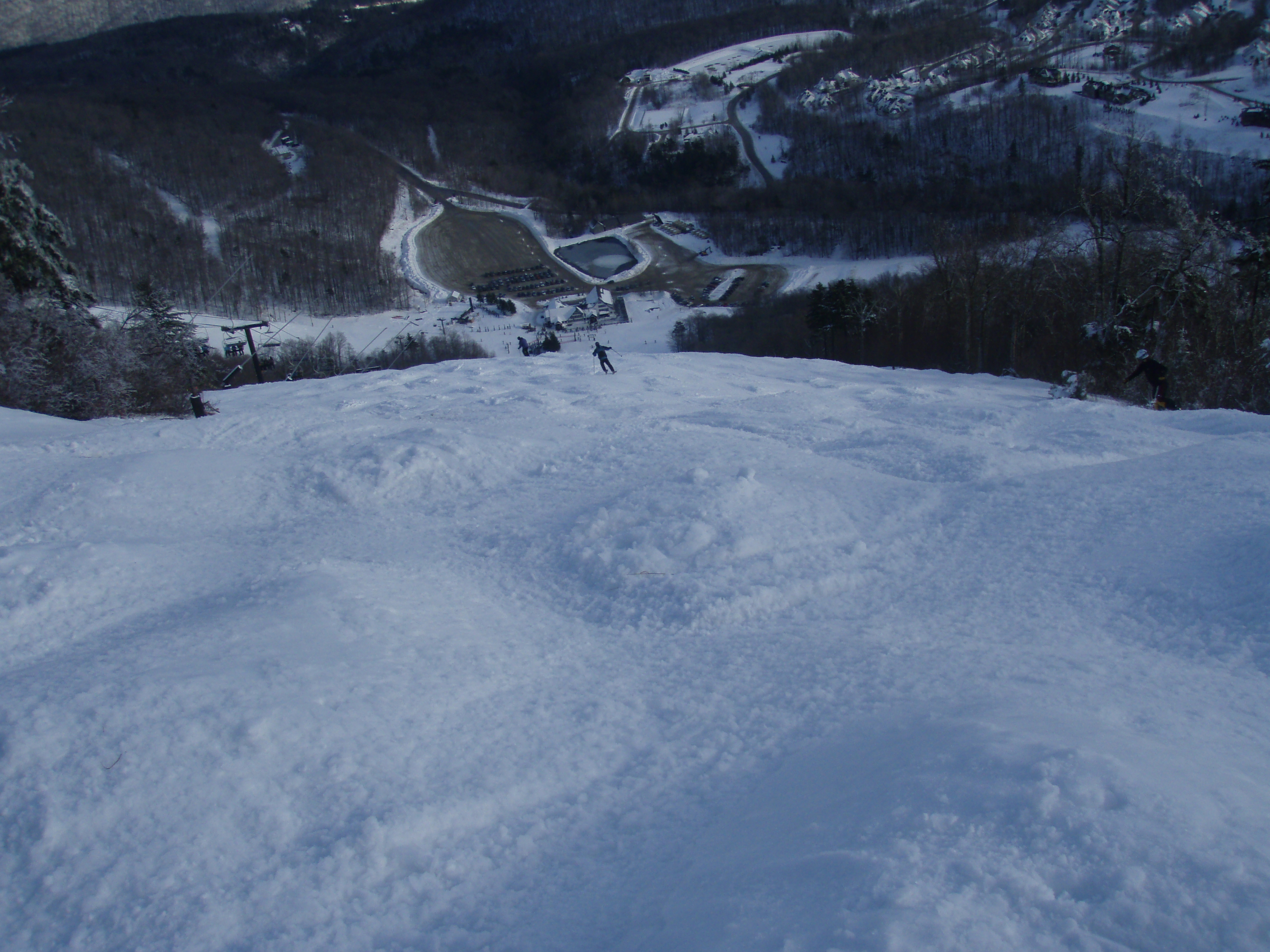 View of Bear Mountain Base in Killington Ski Resort from the top of the double black diamond trail, Outer Limits, which is the steepest mogul run in New England. Picture taken by User:NHRHS2010.